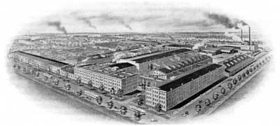 Elkhart Carriage & Harness Mfg. Co., Beardsley Ave plant, Elkhart, Indiana; the largest manufacturer of horse drawn vehicles and harnesses who sold by mail order. 1910 illustration.